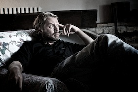 Mattias Lindblom, Tuscany 2009